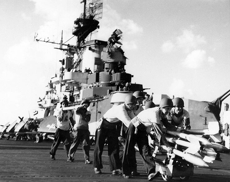 Carrier Raids on Formosa, October 1944. Crewmen on USS Hancock (CV-19) move rockets to planes, while preparing for strikes on Formosa, 12 October 1944.